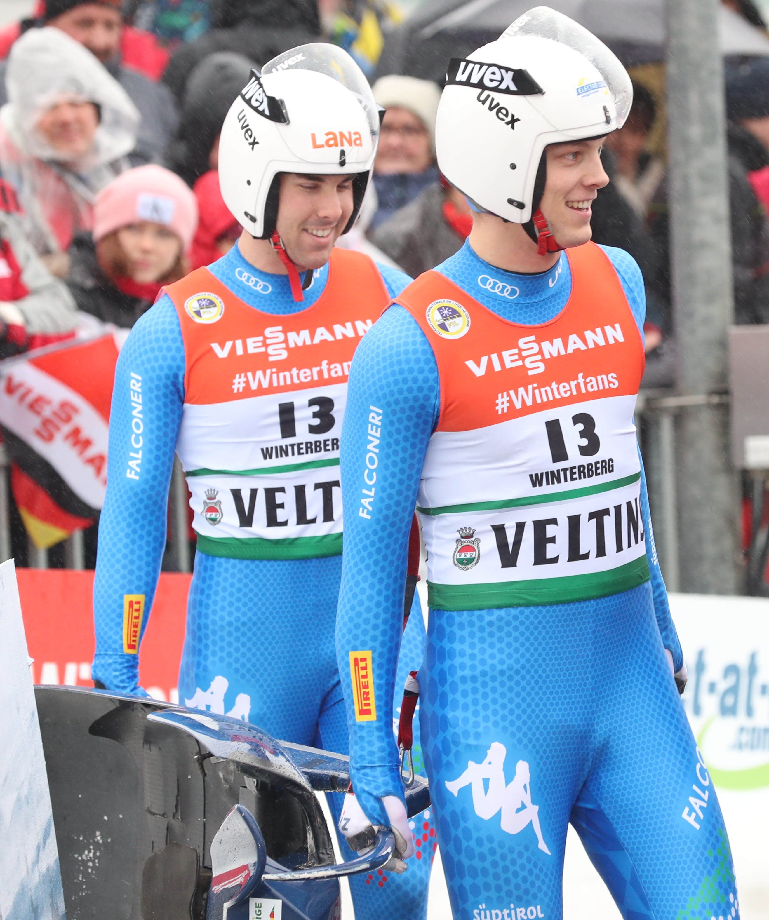 Doubles race at the FIL World Luge Championships 2019 in Winterberg